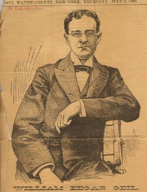 Engraving of William Edgar Geil, world traveller